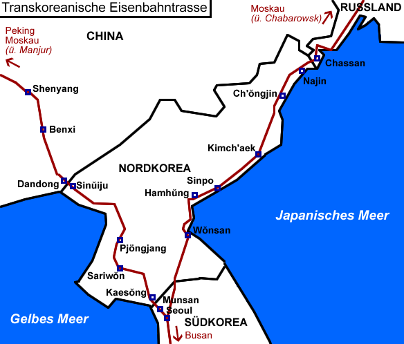 Trans Korean Rail Lines